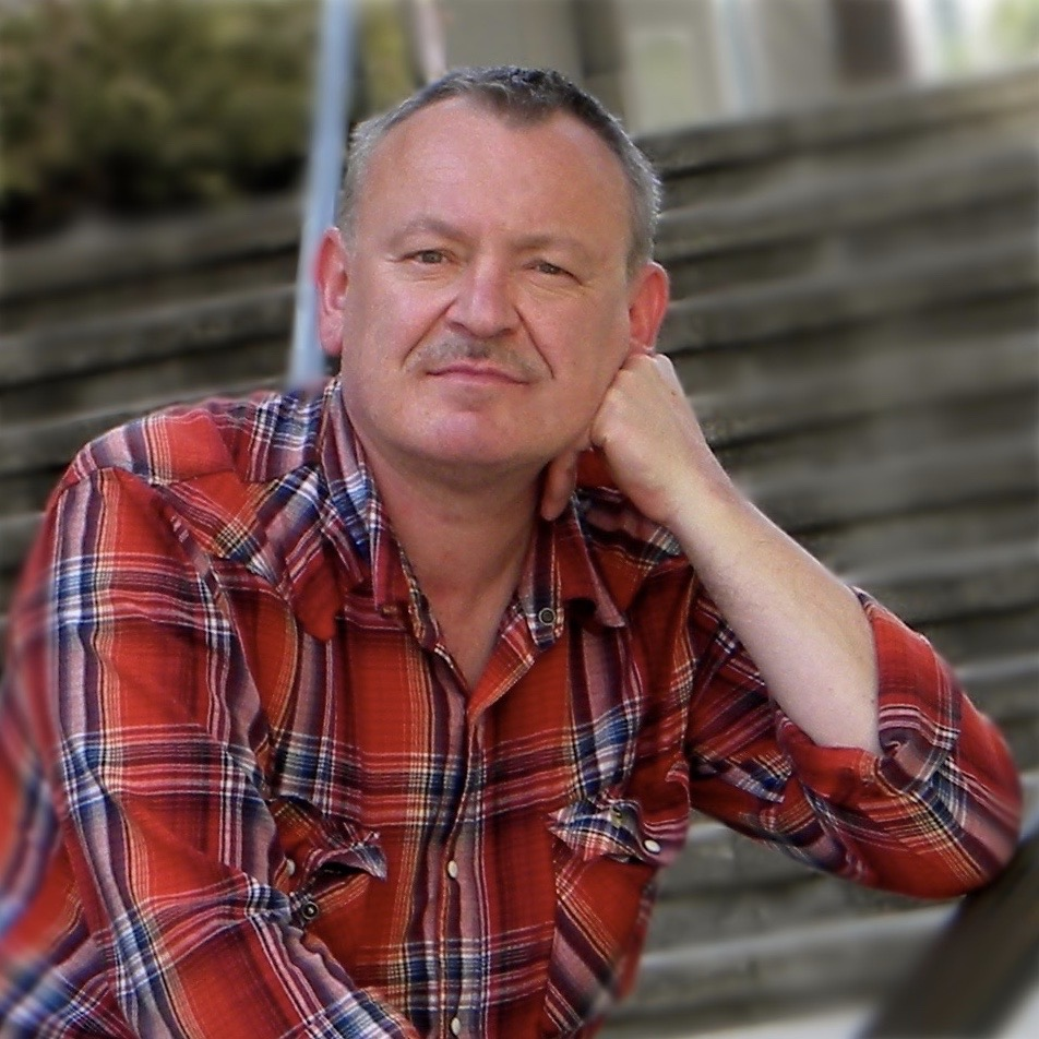 Margus Välja, Journalist